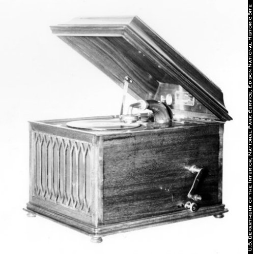 Edison Diamond Disc phonograph, A-80